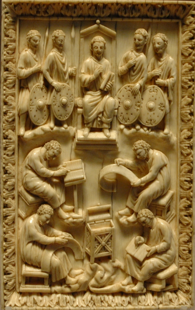 David dictating the Psalms, binding plate.